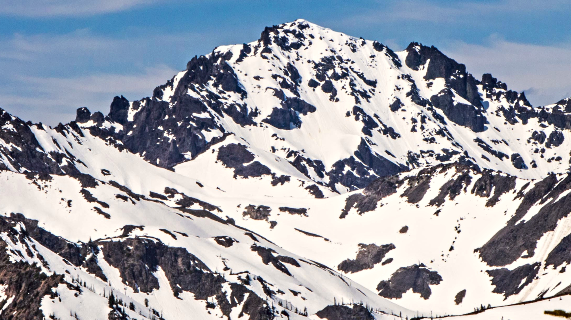 Deception covered by snowpack